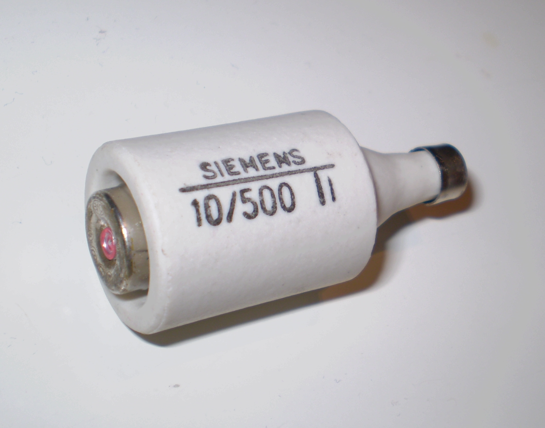 A fuse